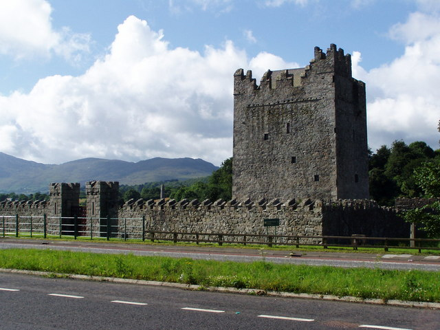 Narrow Water Tower